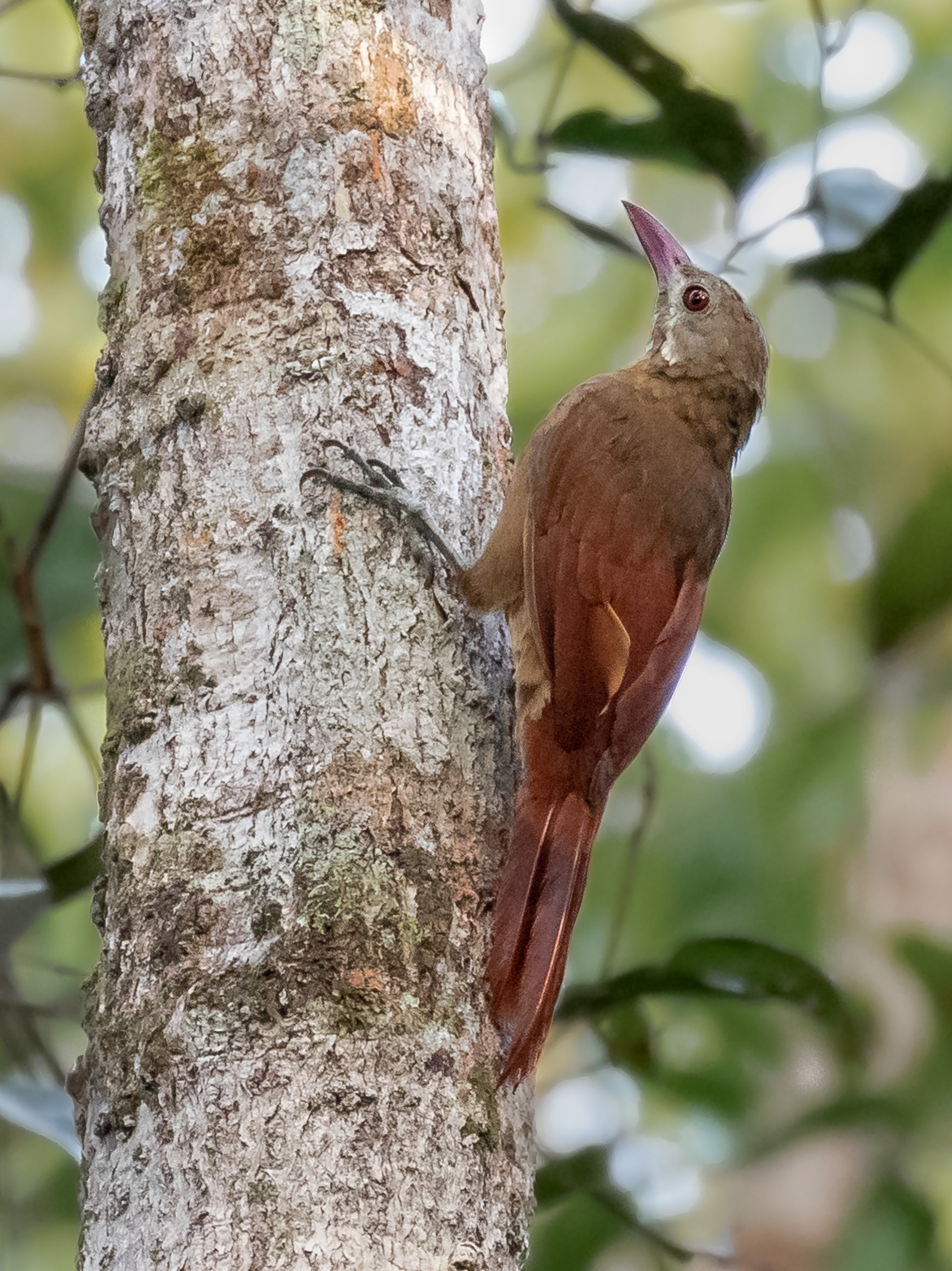 Red-billed Woodcreeper; Ramal do Pau Rosa, Manaus, Amazonas, Brazil